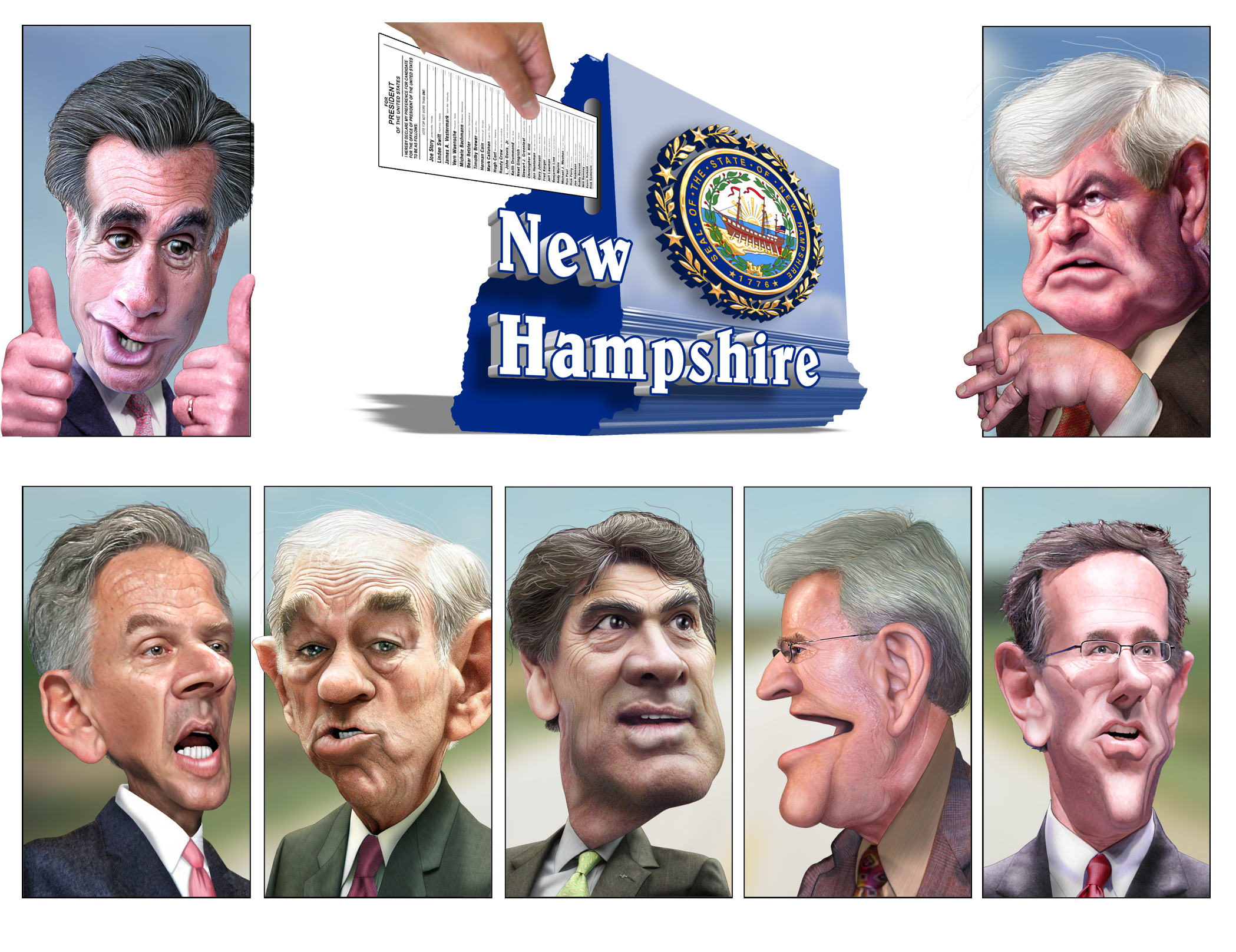 New Hampshire Primary Candidates Source photos for INew Hampshire Primary Characters: Huntsman - CC from World Economic Forum's flickr photostream. Santorum - CC from Gage Skidmore's flickr photostream. Perry - CC from Robert Scoble's Flickr photostream. Paul - CC from Gage Skidmore's flickr photostream. Gingrich - CC from Gage Skidmore's flickr photostream. Romney - CC - from Gage Skidmore's Flickr photostream. Roemer - dsb nola's flickr photostream. NOTE: CC = Creative Commons licensed photo